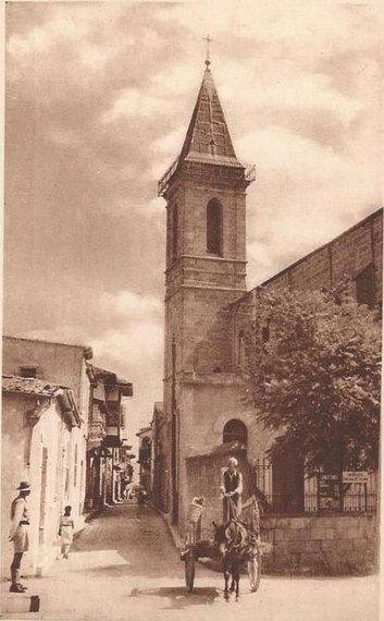 Armenian Quarter, Victoria Road of Nicosia, Cyprus in the 1930's.